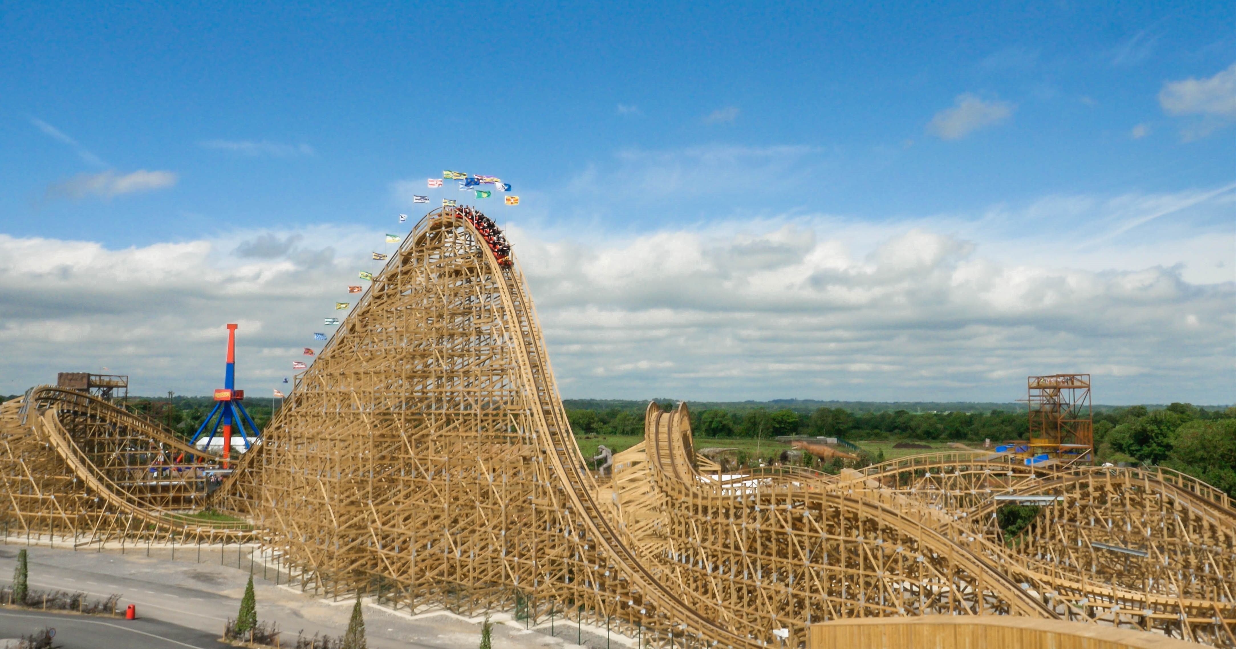 The Cú Chulainn Coaster in Tayto Park, Ireland